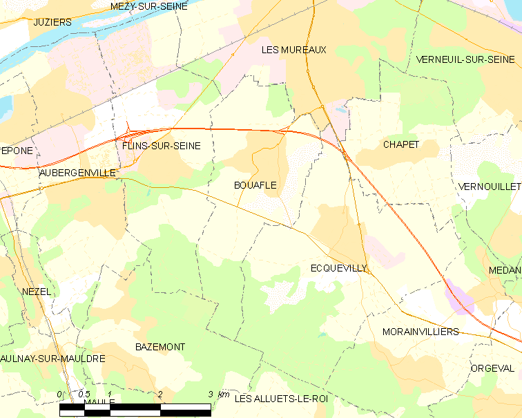 Map of French municipality Bouafle